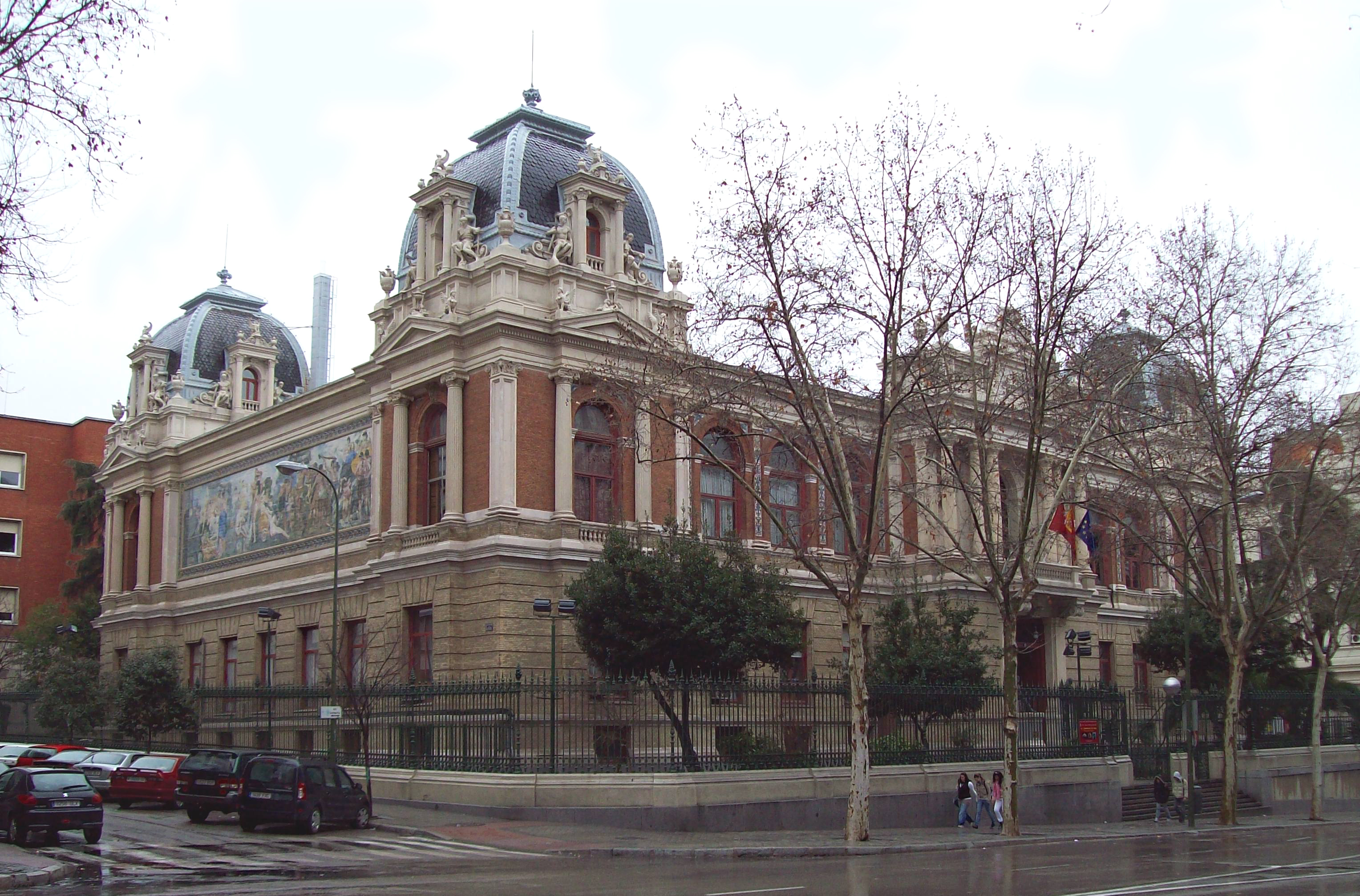 View, from the south-west angle, of the M1 building of the School of Mines of Madrid (Spain), at 21 Calle de Ríos Rosas (street). It was projected in 1884 by Ricardo Velázquez Bosco and built between 1886 and 1893.